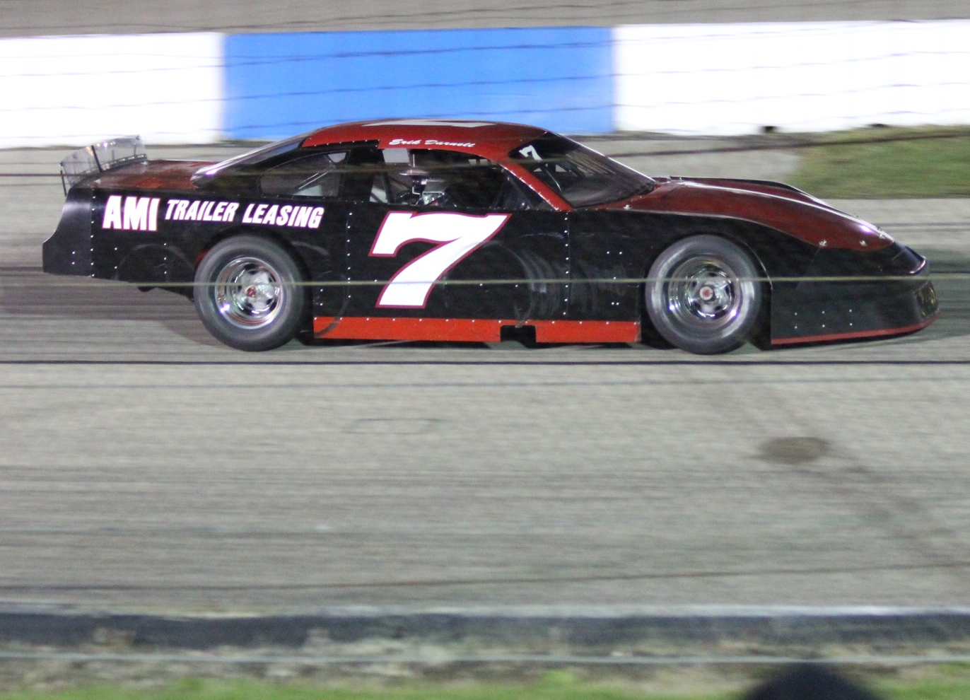 The Super Late Model of Erik Darnell after winning the Dick Trickle 99 race at the Oktoberfest race weekend at the La Crosse Fairgrounds Speedway.